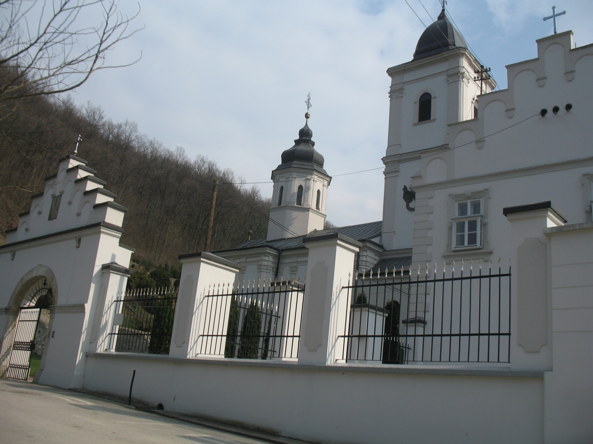 Beočin monastery on slopes of Fruška Gora in Beočin municipality,Serbia.